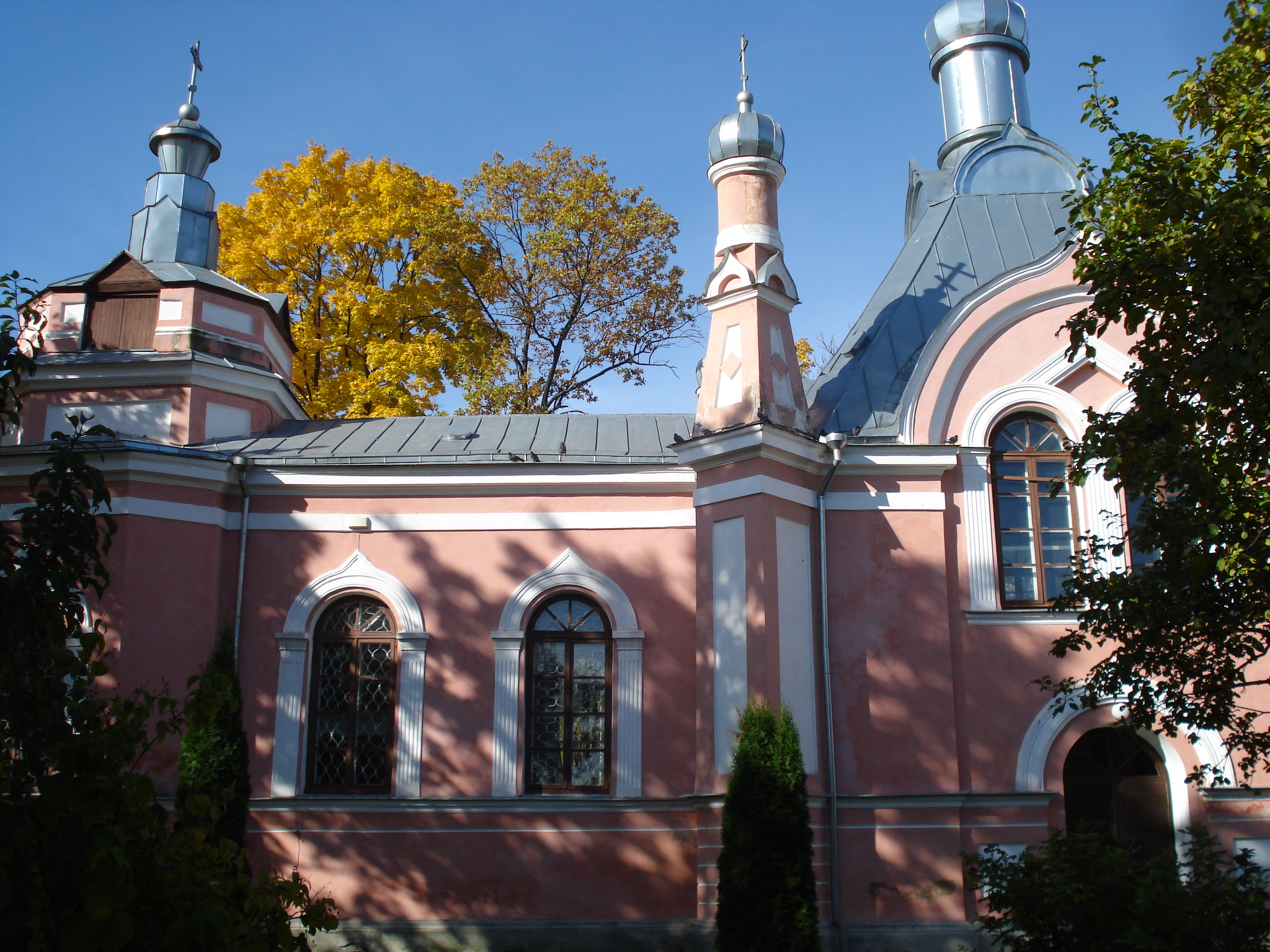 Orthodox Church of St George in Tartu. Narva road 103/105